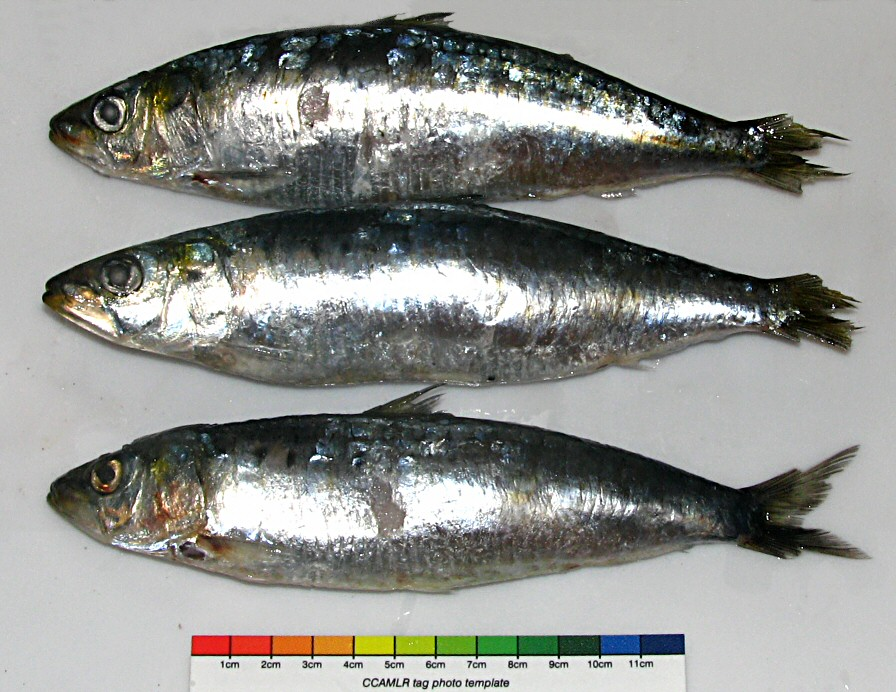 Longline bait (sardina) for Antarctic toothfish (Dissostichus mawsoni) fishing